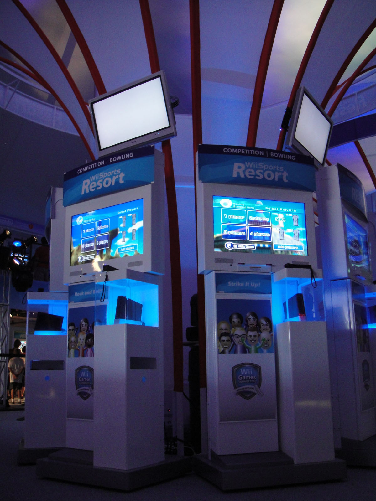 Wii Games Summer 2010 - game challenge area up close